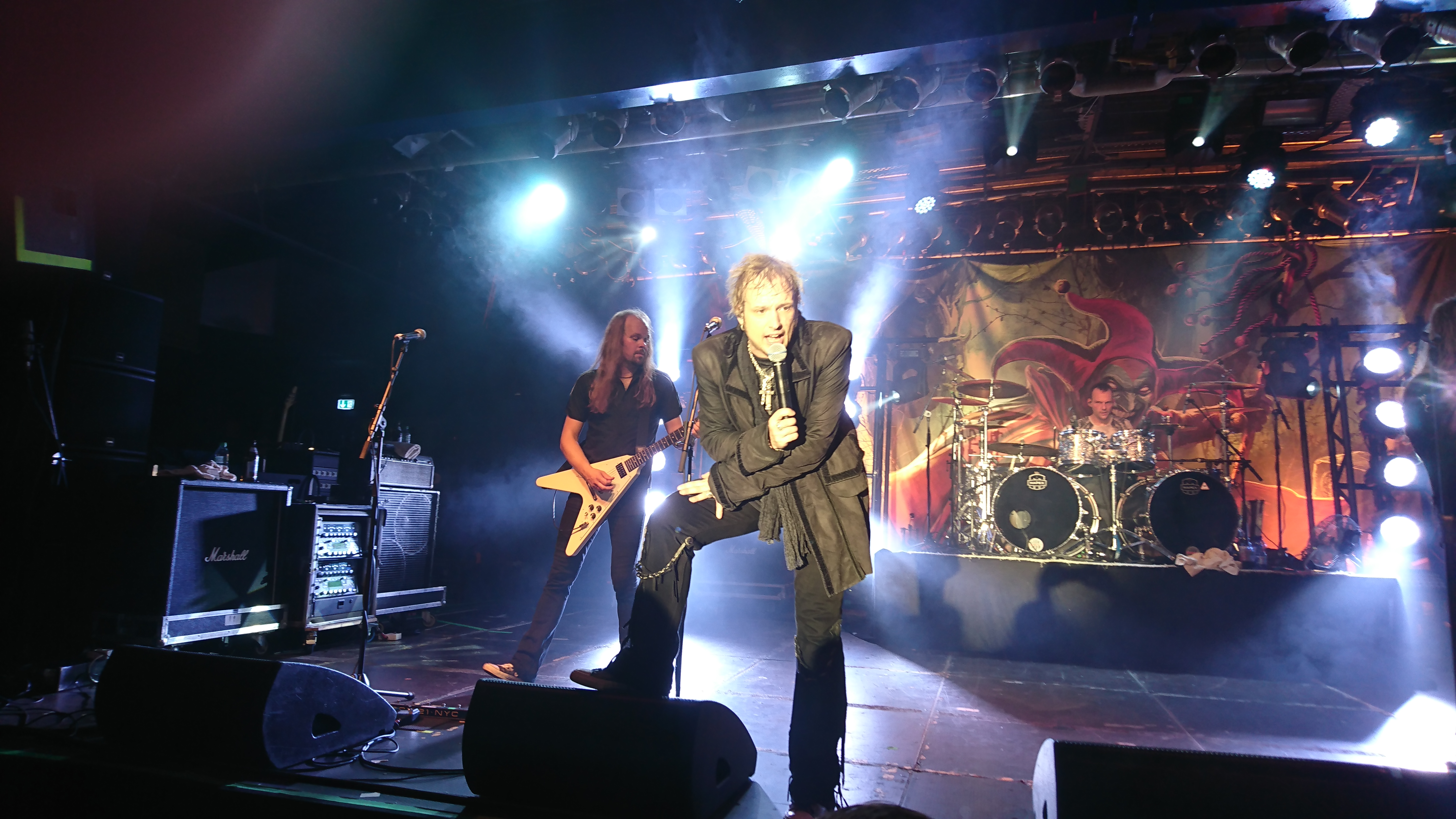 Edguy in Backstage Munich, Germany, during their 25 Years - The Best of the Best Monuments Tour 2017